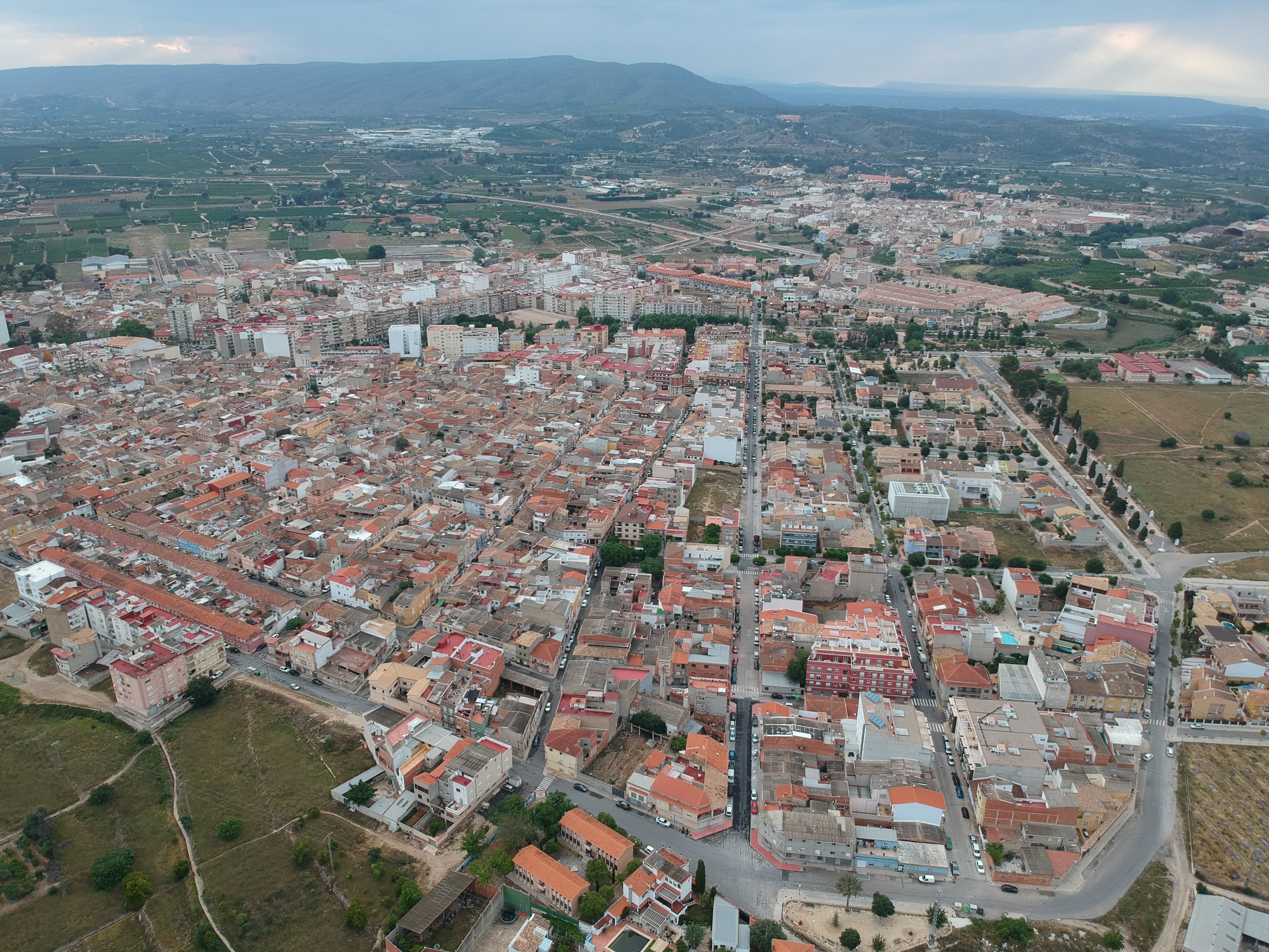 Dron picture of Canals and l'Alcúdia de Crespins air view from la Riba de Sagres